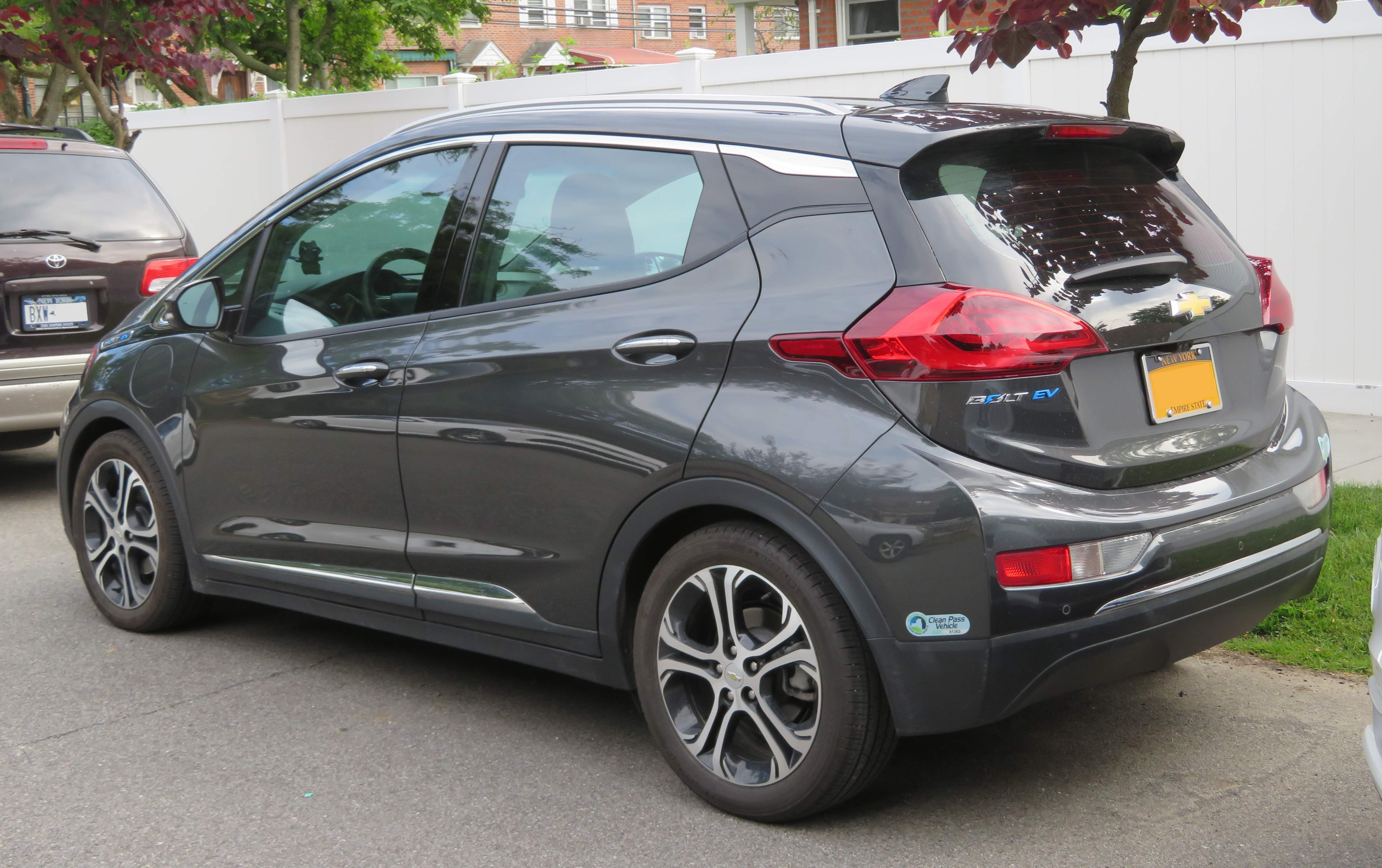 Photographed in Queens, New York